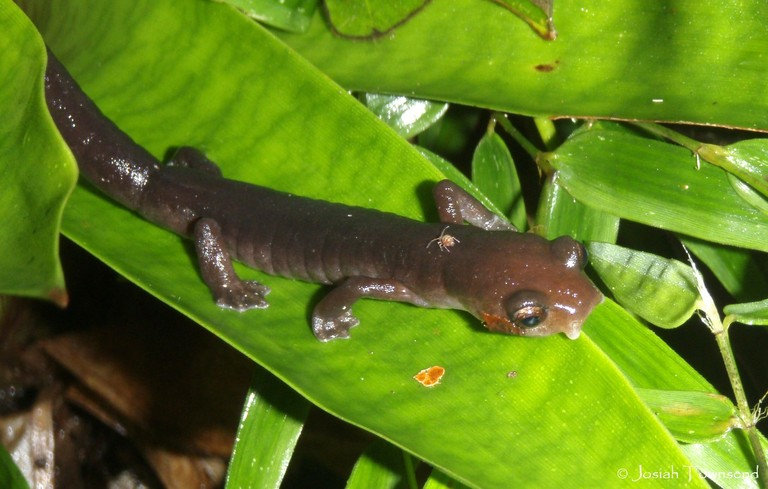 Bolitoglossa diaphora